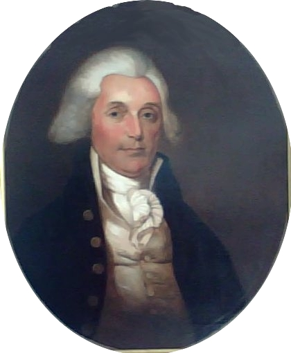 The governor of North Carolina Samuel Johnston (1733-1816)